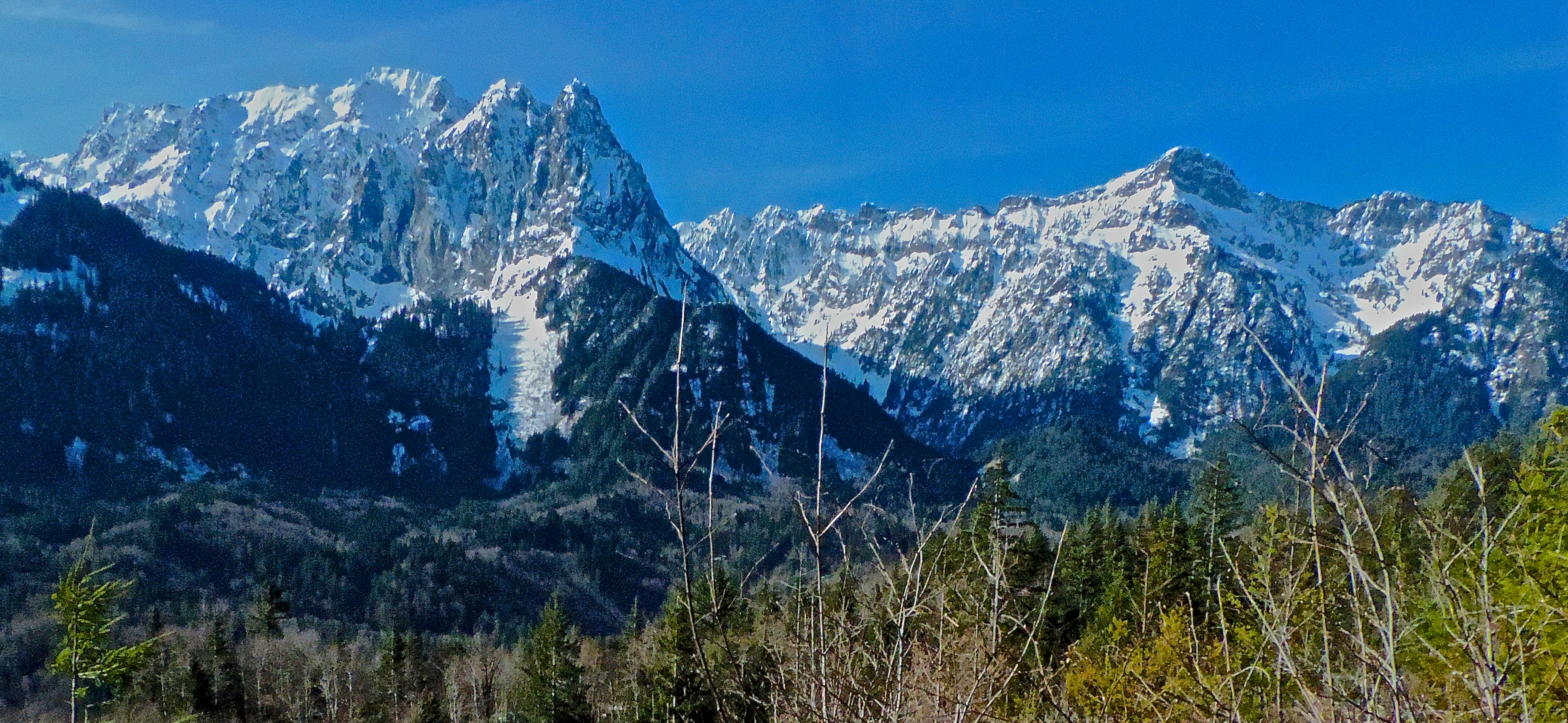 Mt Index (left) and Mt Persis, from Heybrook Ridge